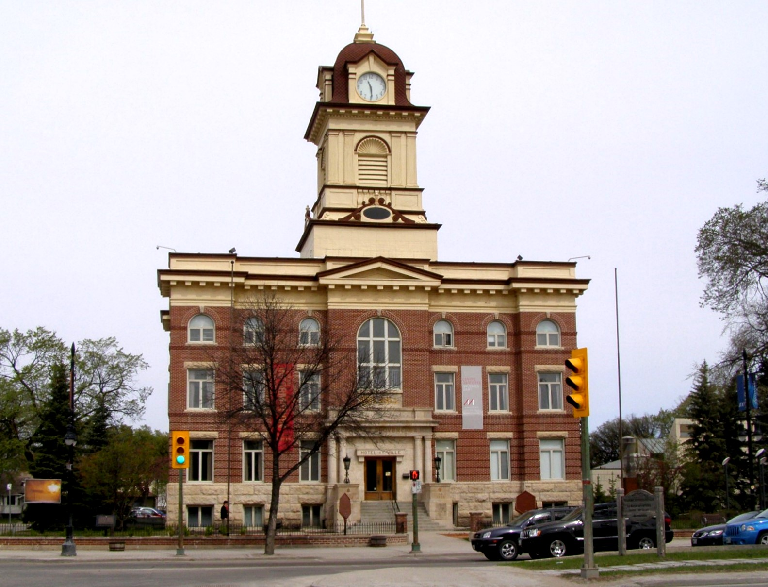 This building was designed by architect Victor Horwood and built in 1905 to serve the francophone community in Winnipeg's expanding suburb. The architect was immersed in controversy when found to be cutting corners and the structure, especially the tower, was modified to accommodate budget shenanigans.